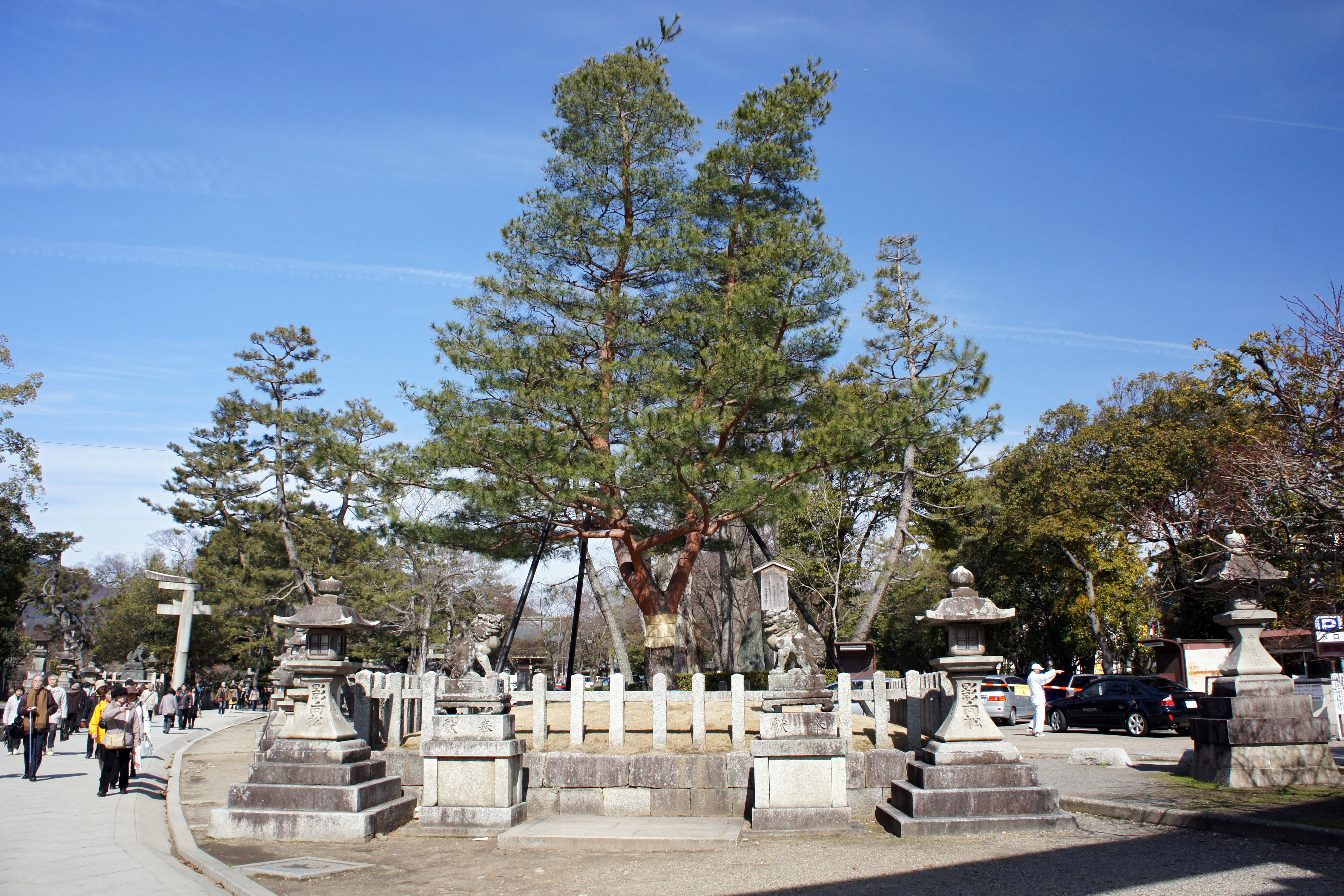 Kitano Tenman-gū in Kamigyō-ku, Kyoto, Kyoto Prefecture, Japan